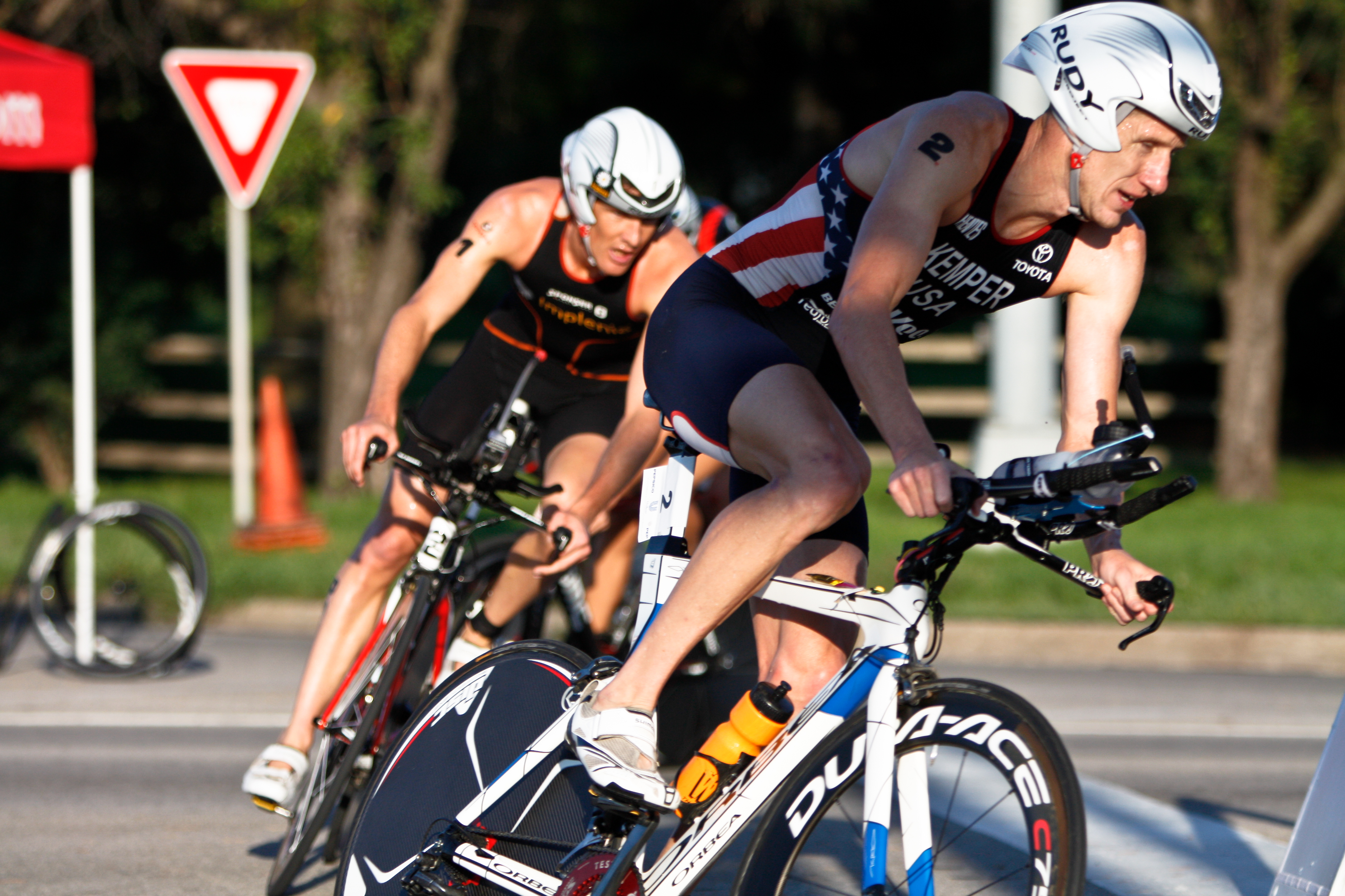 Photos from the 5150 Elite Cup competition at the 2014 HyVee Triathlon.